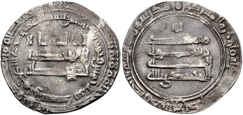 ISLAMIC, 'Abbasid Caliphate. al-Muhtadi. AH 255-256 / AD 869-870. AR Dirham (26mm, 3.03 g, 6h). Wasit mint. Dated AH 255 (AD 868/9). SICA 4, –; Album 238; Wilkes 415. VF, toned, slightly crimped flan. Rare.